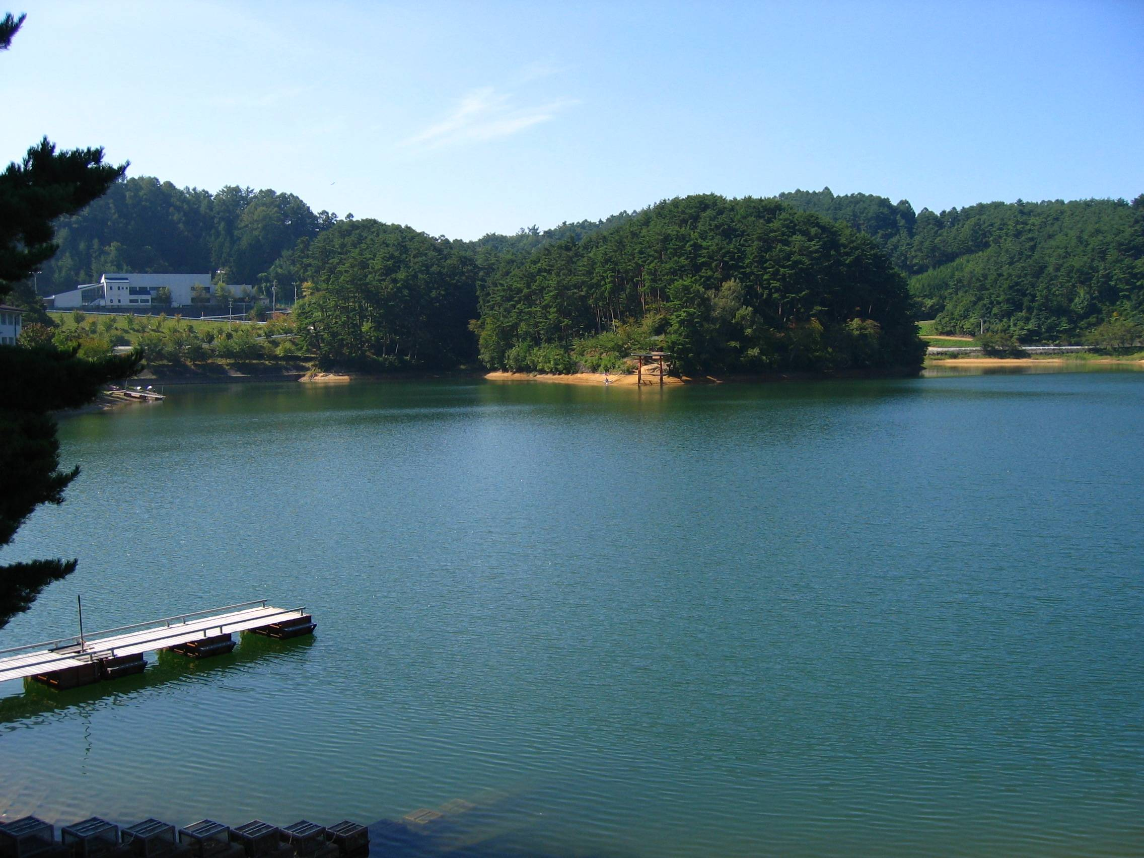 Lake Misuzuko (美鈴湖) is a lake in Matsumoto city, Nagano prefecture, Japan.